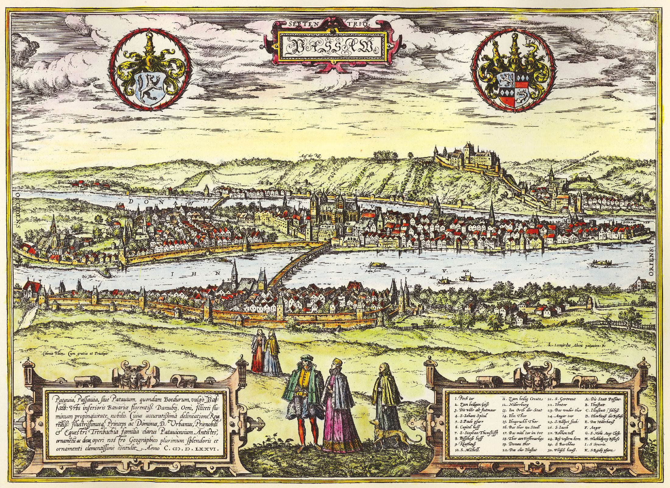 historical sight of the German town of Passau by Georg Braun and Franz Hogenberg (between 1572 and 1618)